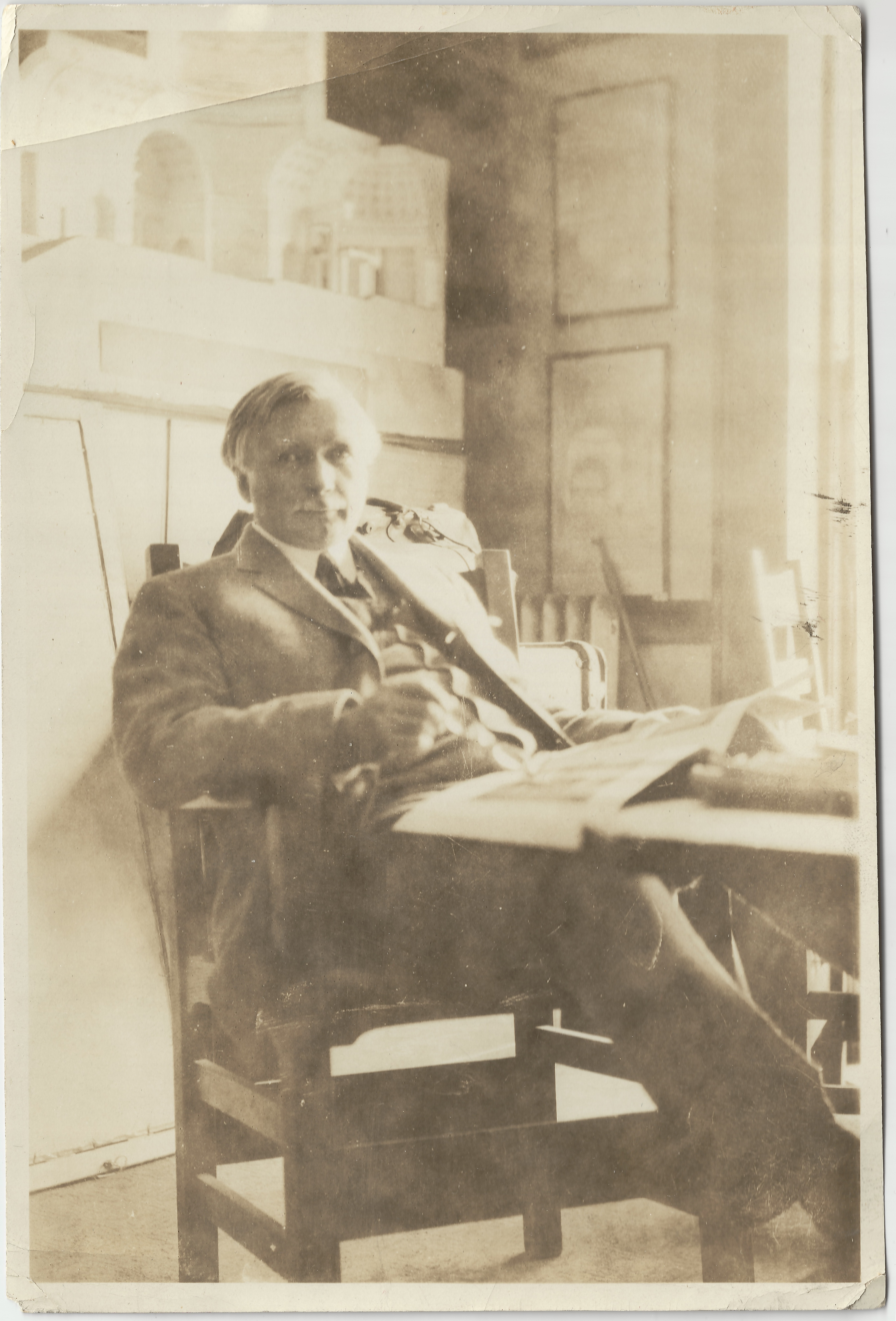 Egerton Swartwout architect